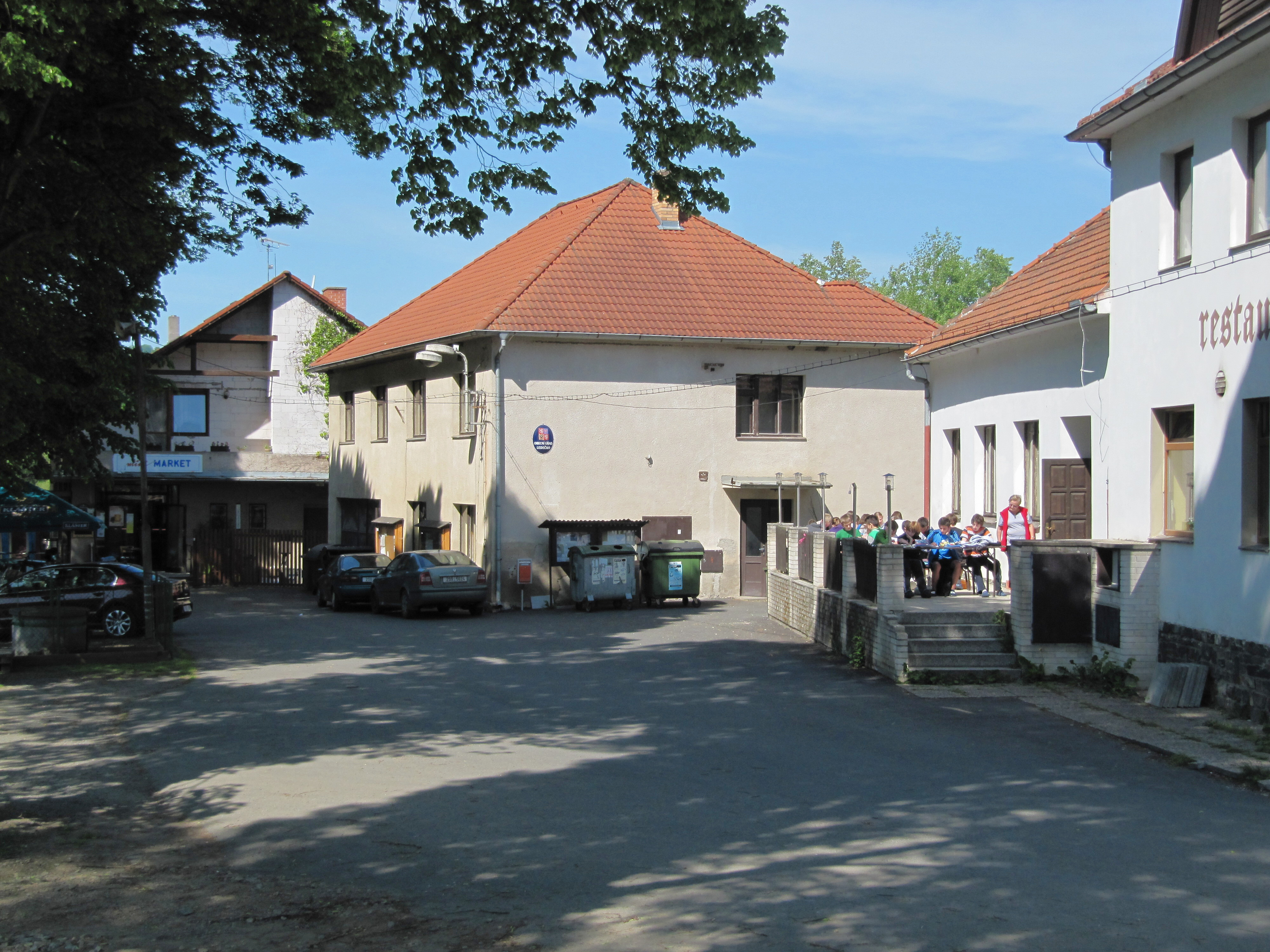 Ledečko in Kutná Hora District, Czech Republic. Municipal office.